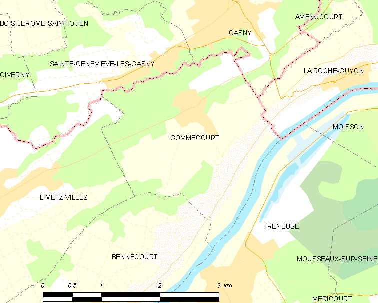 Map of French municipality Gommecourt